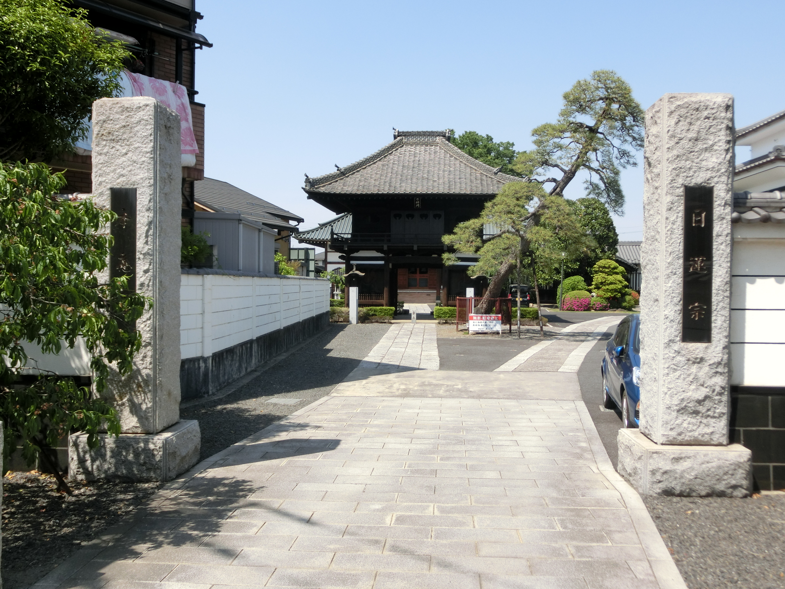 Honno-ji (Kawagoe)